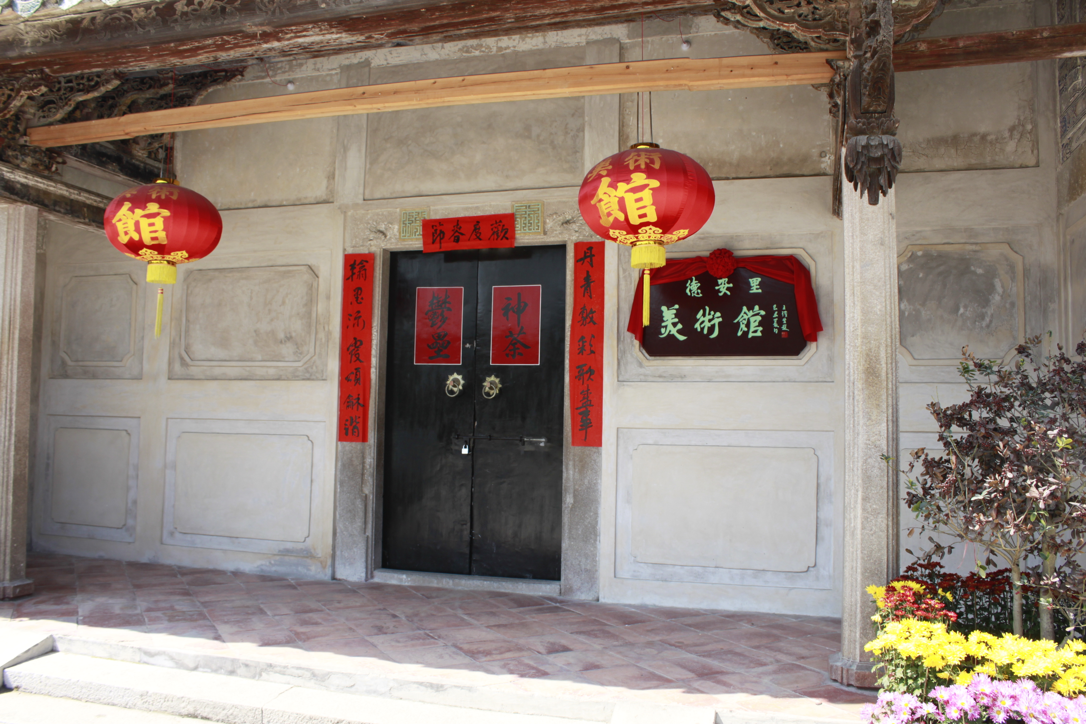 A photo taken at Deanli Mansion during the Spring Festival in 2010